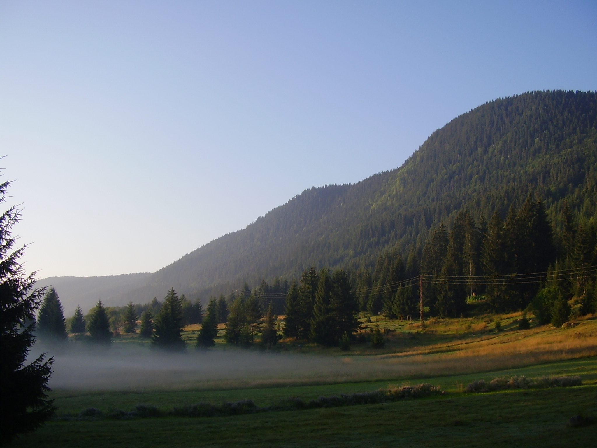 Part of the Dabrash ridge (Дъбрашки рид) on the south bank of the Dospat reservoir at approx. 7 AM, looking south-east. Rhodope mountains, Bulgaria.